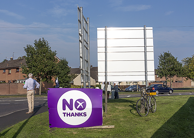 Better Together campaigning at Kinross